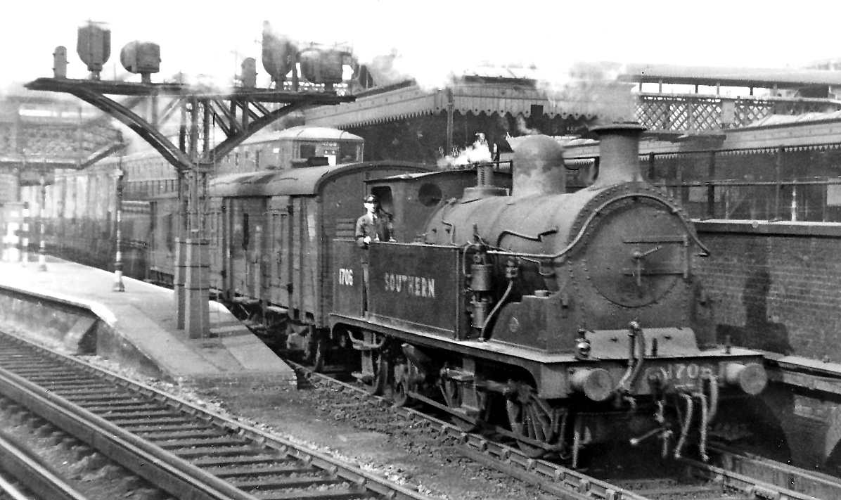 Ex-LC&DR 0-4-4T at London Bridge Low Level. A relic from London, Chatham & Dover days, Kirtley R1 class 0-4-4T No. 1706 (built 12/1900, withdrawn 11/52) is on station-pilot duties. These 'Low Level' (un-roofed) platforms, Nos. 8 - 10, were the original terminus of 1836-39 of the London & Greenwich and London & Croydon Railways. Above and to the right are Platforms 1 - 7 of the through lines of the Eastern Section (ex-SER) running to Cannon Street and Charing Cross: out of frame to the left is the main LB&SCR terminus, Platforms 12- 22.